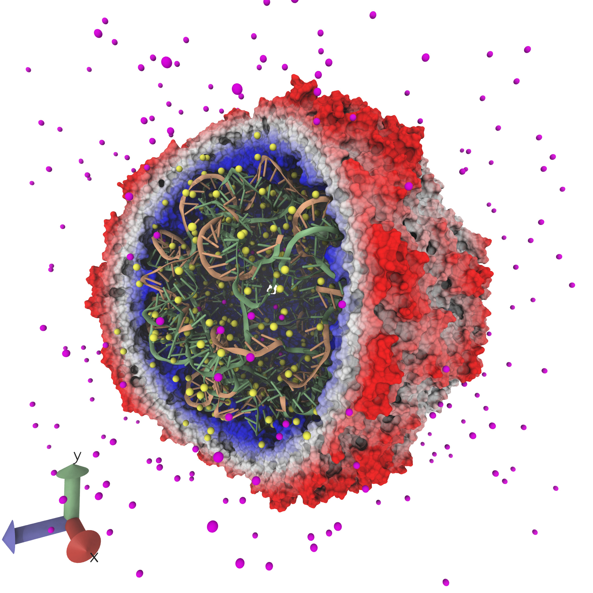 Satellite tobacco mosaic virus (STMV) rendering produced by VMD and Tachyon. The capsid is colored using a radial color scale. The VMD axes are left in the image to show rendering of text and other non-molecular geometry in Tachyon. Ambient occlusion lighting improves perception of shape.